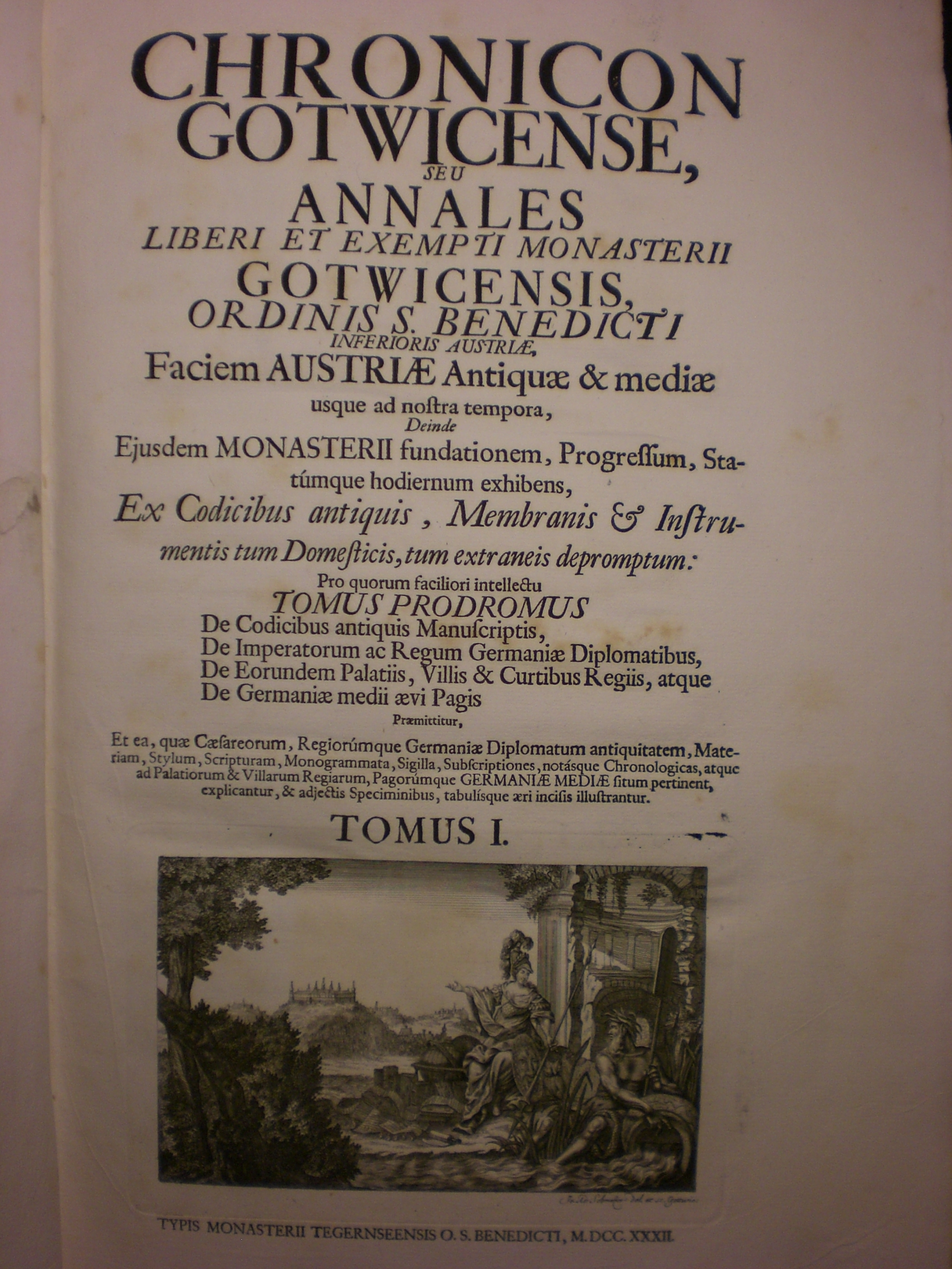 Title Page of Chronicon Gotwicense by Gottfried Bessel (published 1732)